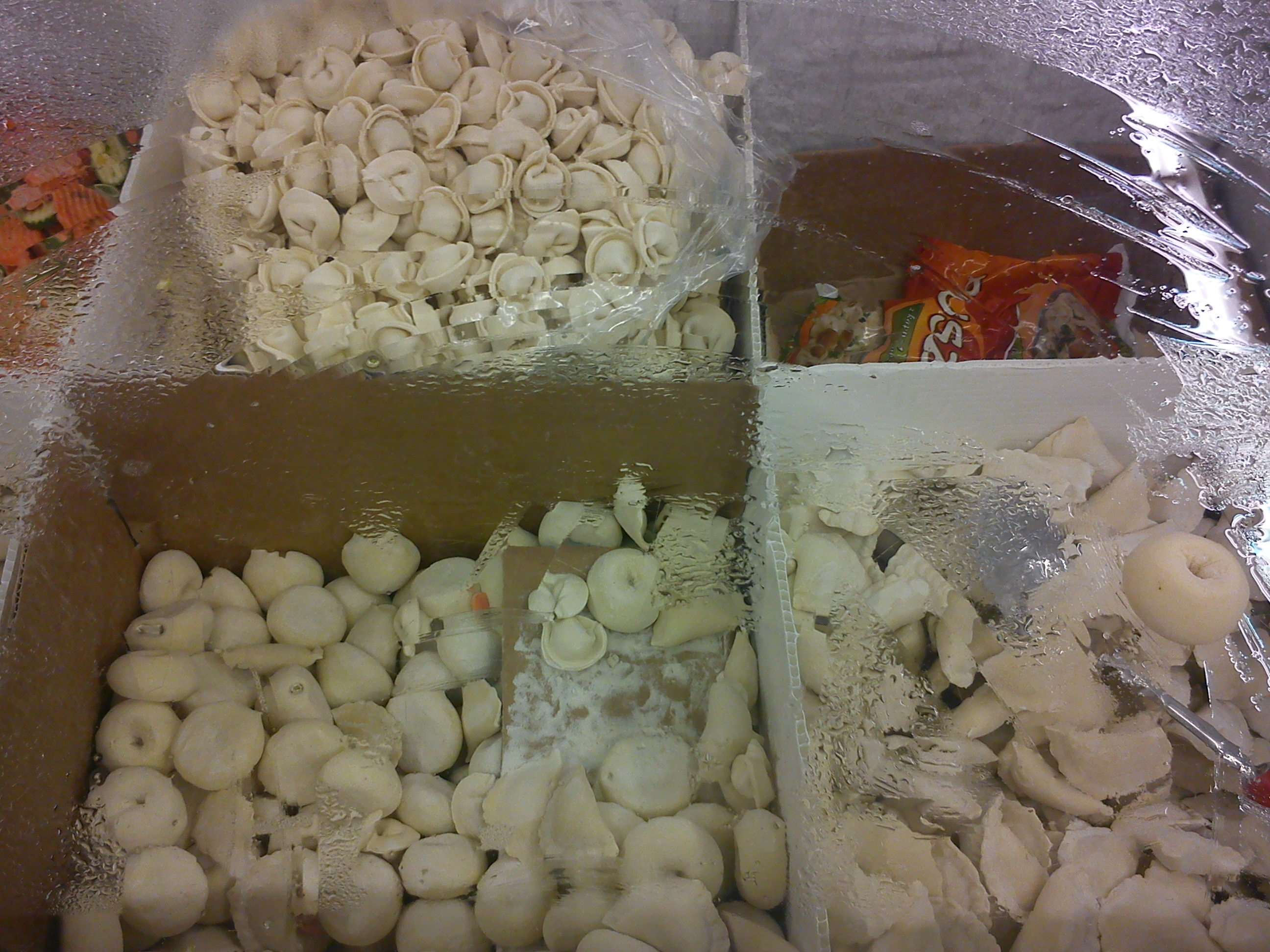 Noodles and dumplings frozen. Sales in Tesco (Poznań).